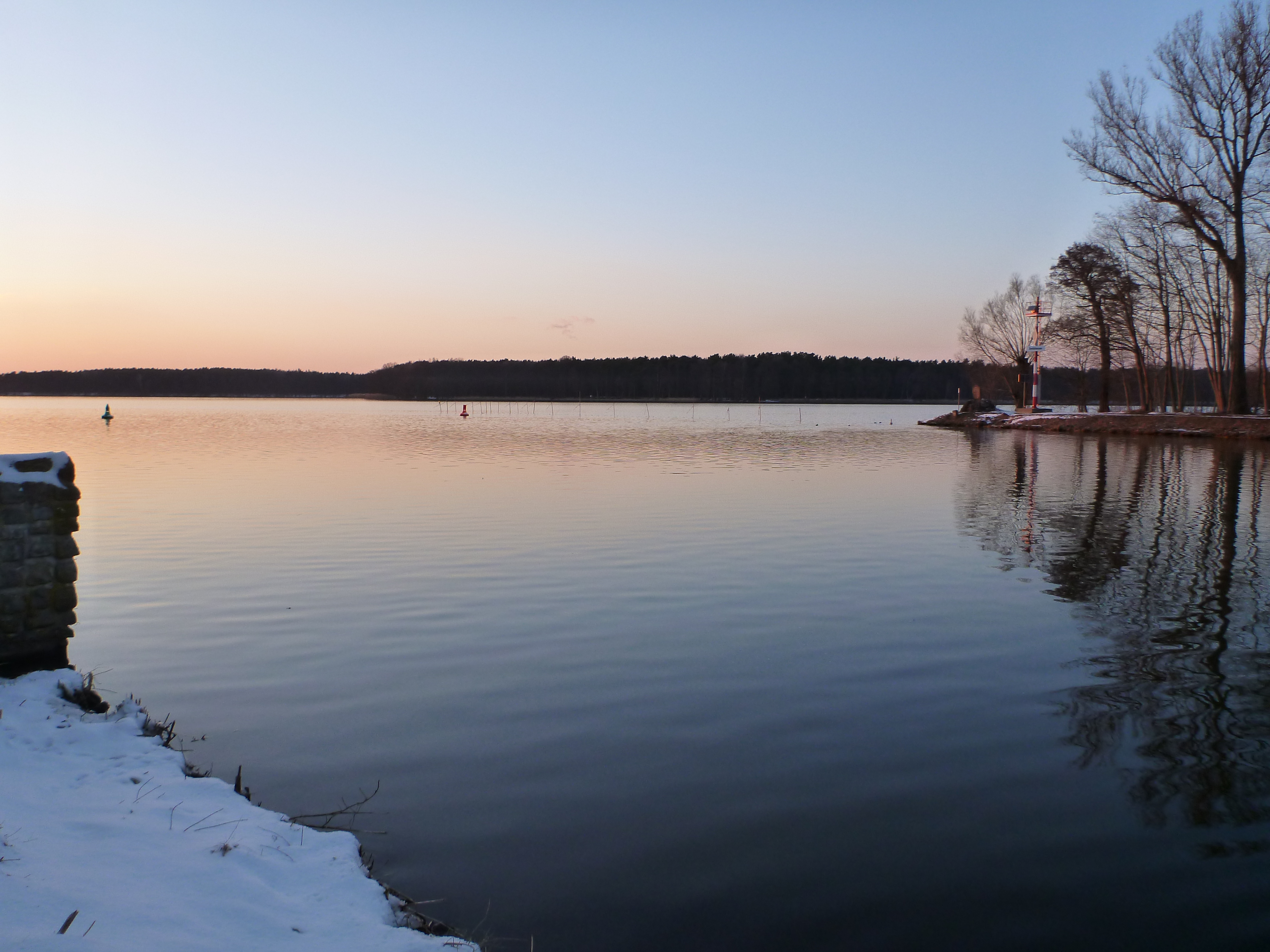 Seddinsee an entry to the Oder-Spree-Kanal